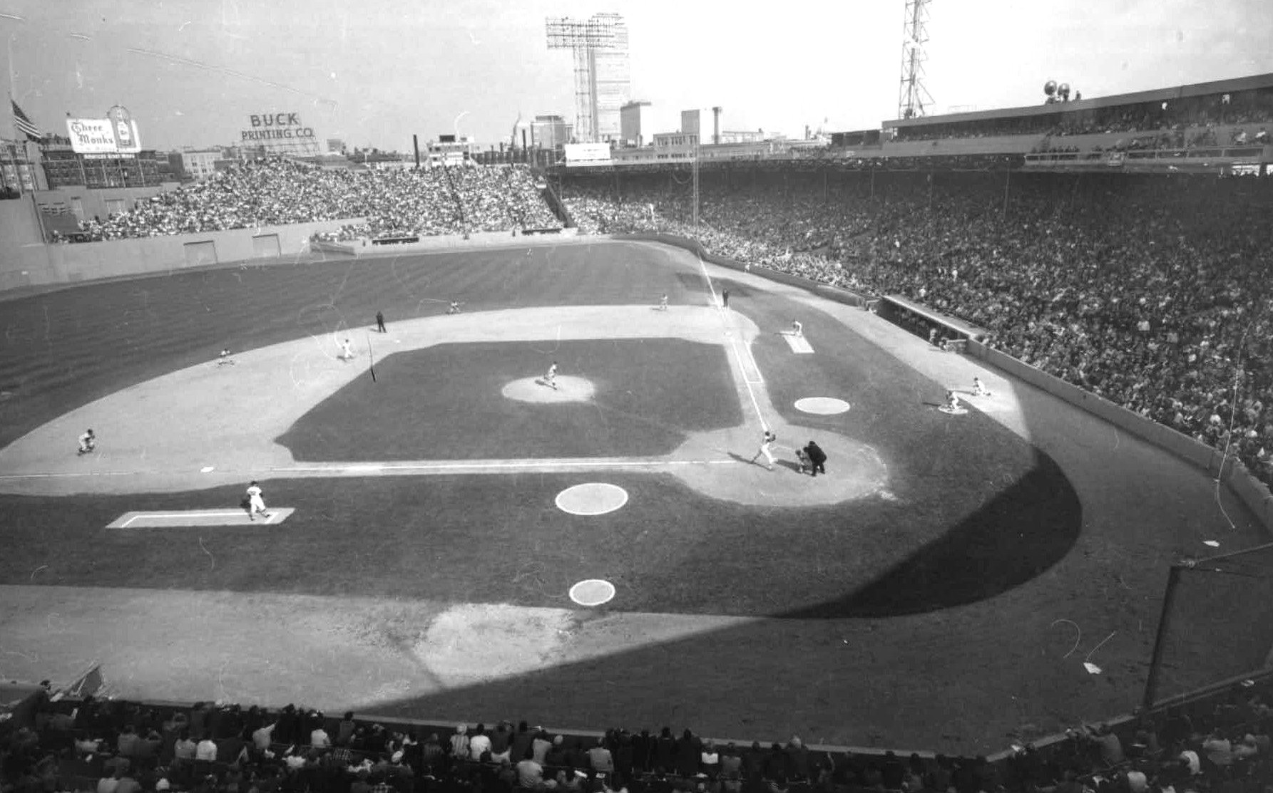 Fenway Park during the 1967 World Series between the Boston Red Sox and the St. Louis Cardinals. The Cardinals would defeat the Red Sox in seven games.